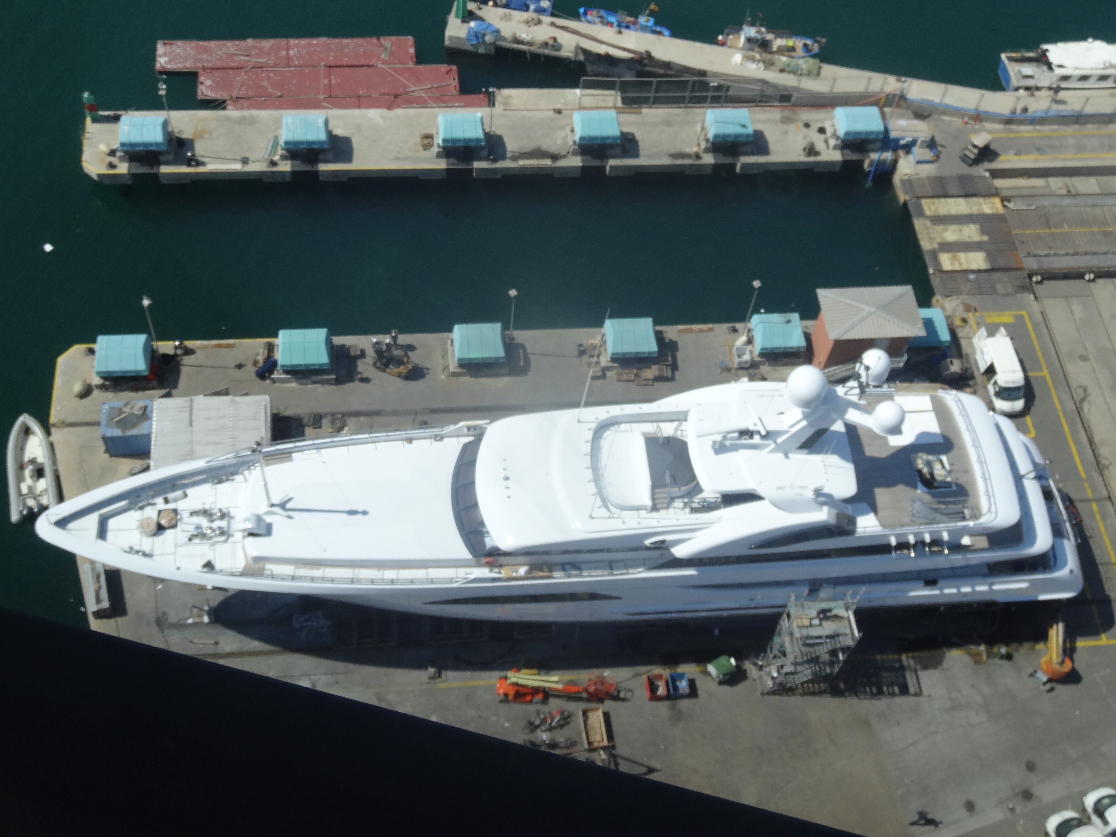 Views from the restaurant located at the top of Torre de Sant Sebastià (port of Barcelona). Launched in 2013, the luxury motor yacht Larisa is a 57,60-metre twin screw vessel, custom built by the Dutch manufacturer, Feadship.